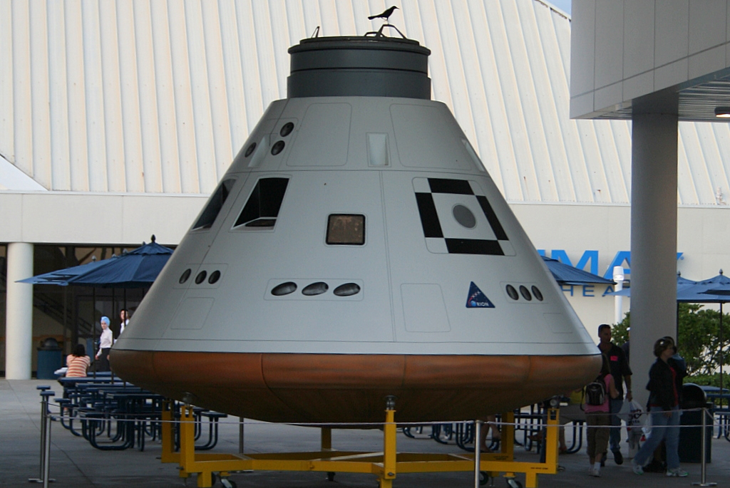 Mockup of an Orion capsule on display at the Kennedy Space Center Visitor Complex.